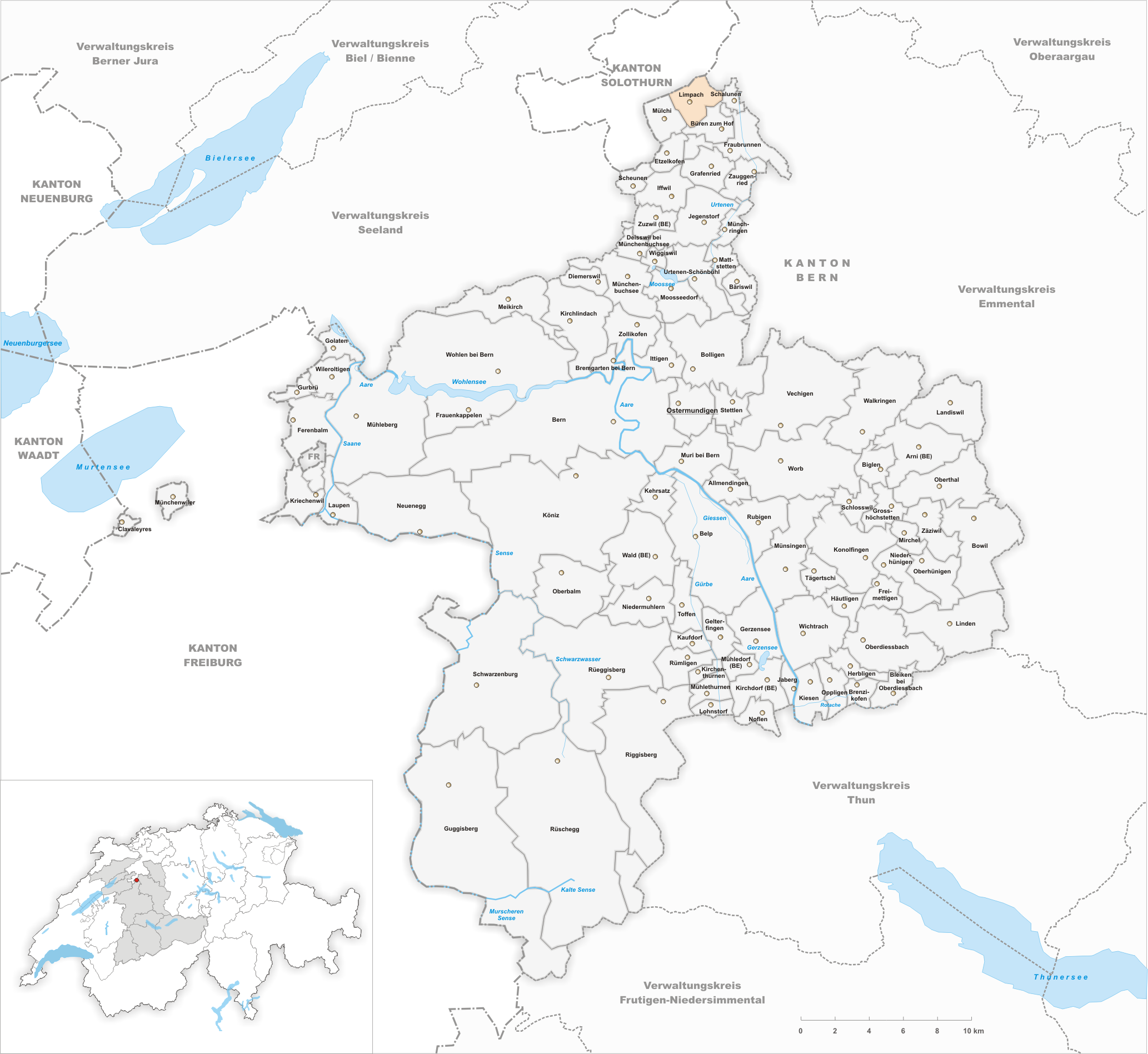 Municipality Limpach